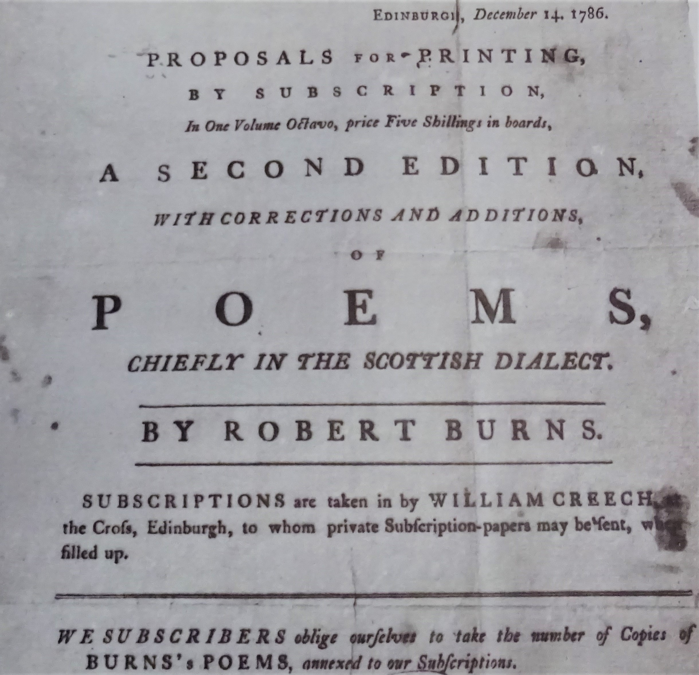 Detail of the Advertisement for the Publication of Burns's 1787 Edinburgh Edition.